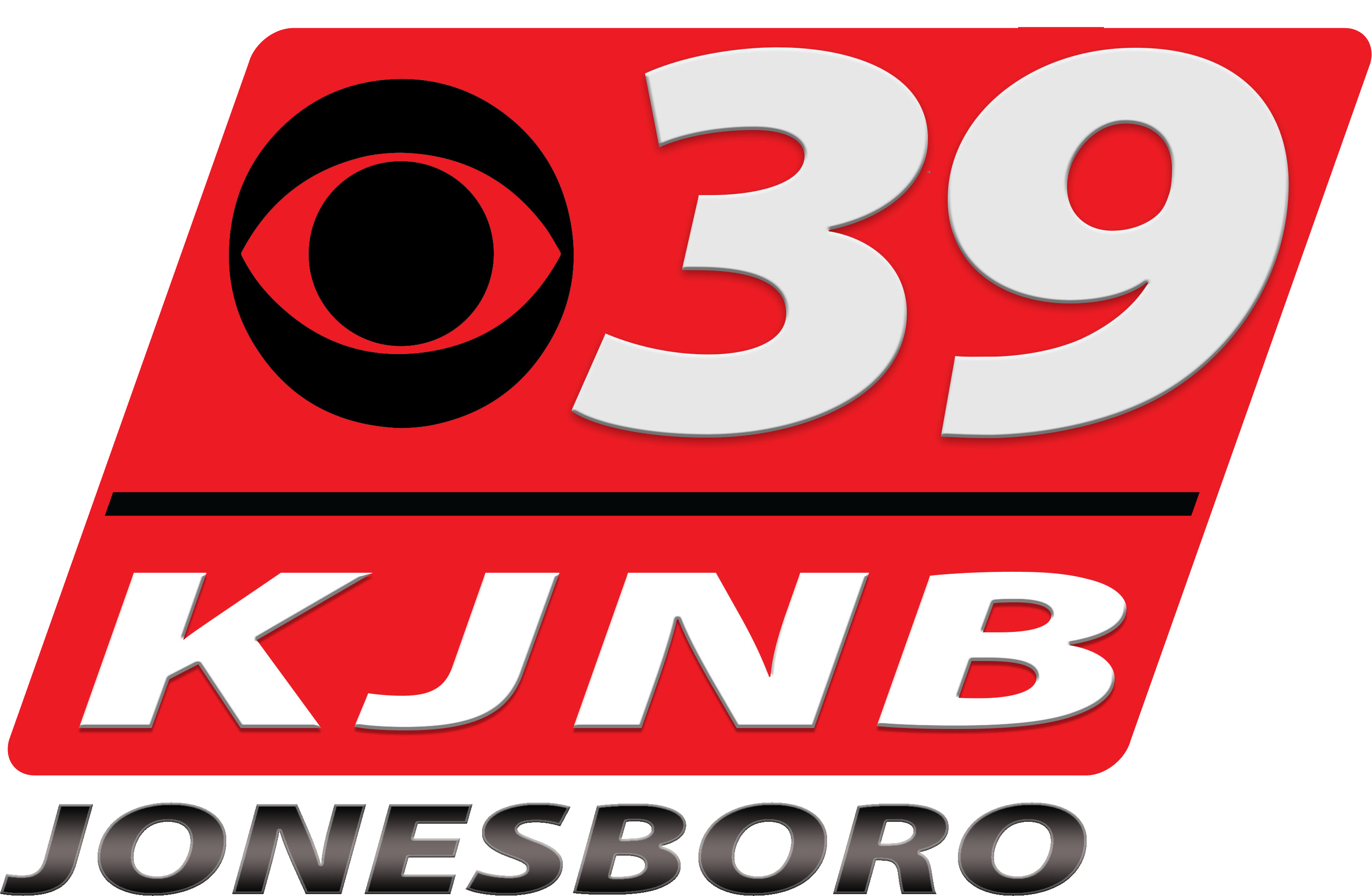 This Was The Logo Of KJNB-LD2 & KJNE-LD2 ("CBS 39"), From September 1, 2015 Until November 2, 2017.